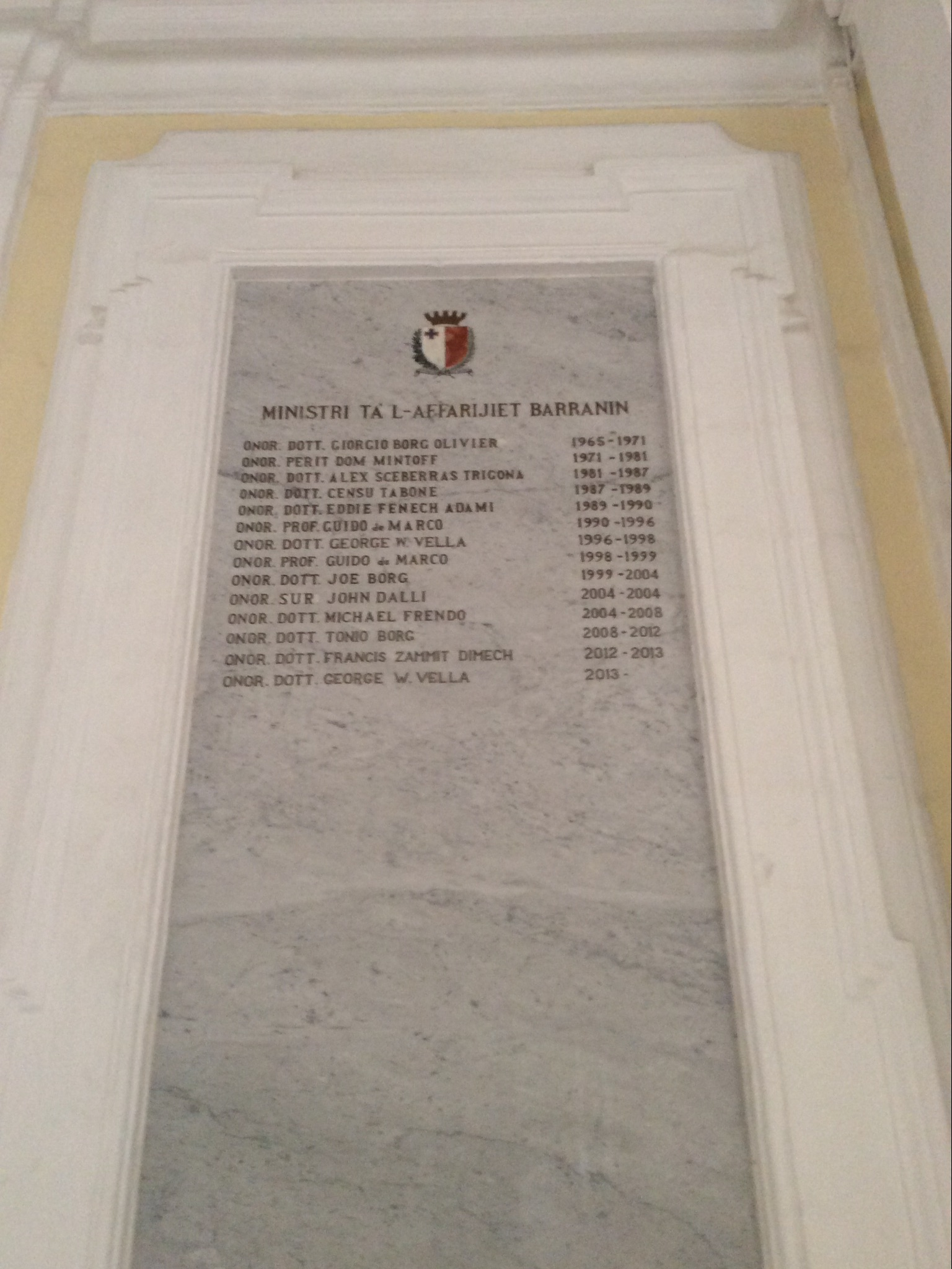 Palazzo Parisio Foreign Affairs Ministers Marble Other information None